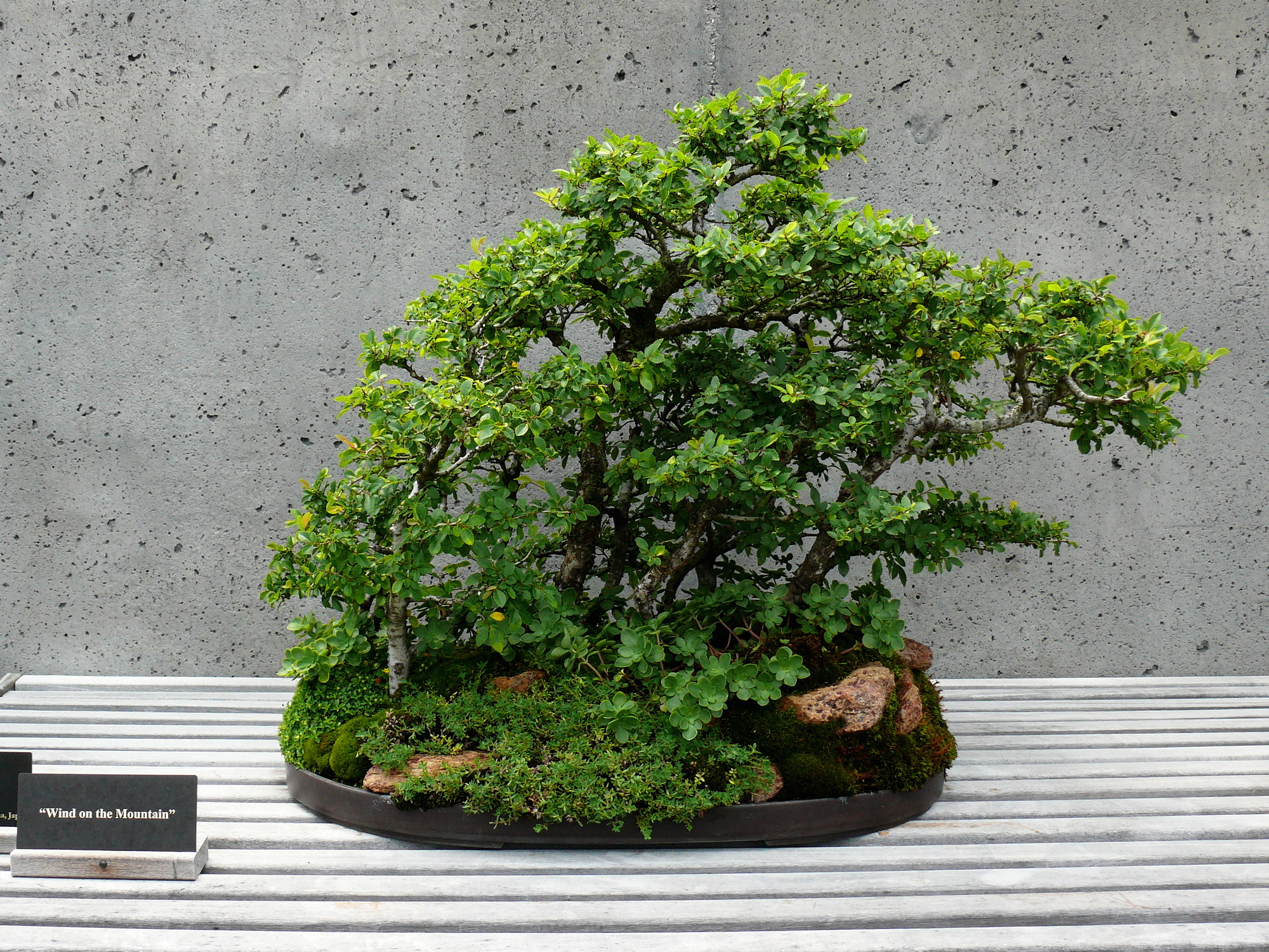 Wind on the Mountain is a Chinese Elm (Ulmus parvifolia) bonsai on display at the North Carolina Arboretum.Photo taken with a Panasonic Lumix DMC-FZ50 in Buncombe County, NC, USA.